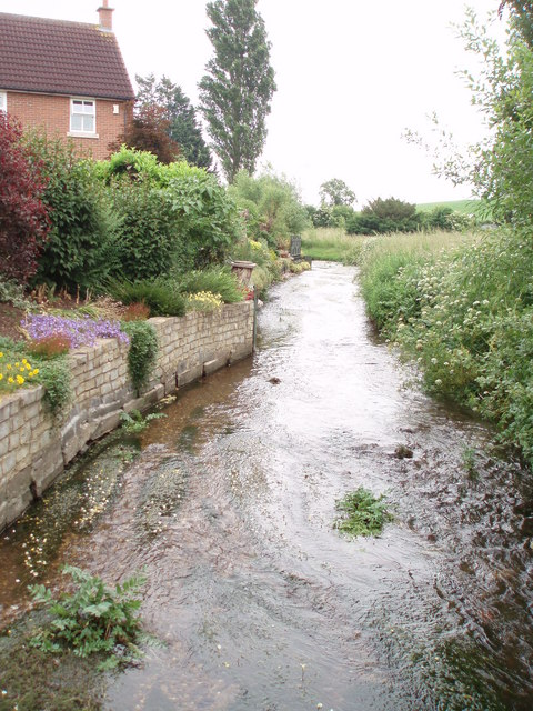 Keward brook. The brook is flowing towards the photographer past a new housing estate on the left. Approximately a mile further west the brook joins the river Sheppey and heads off towards the Somerset Levels.